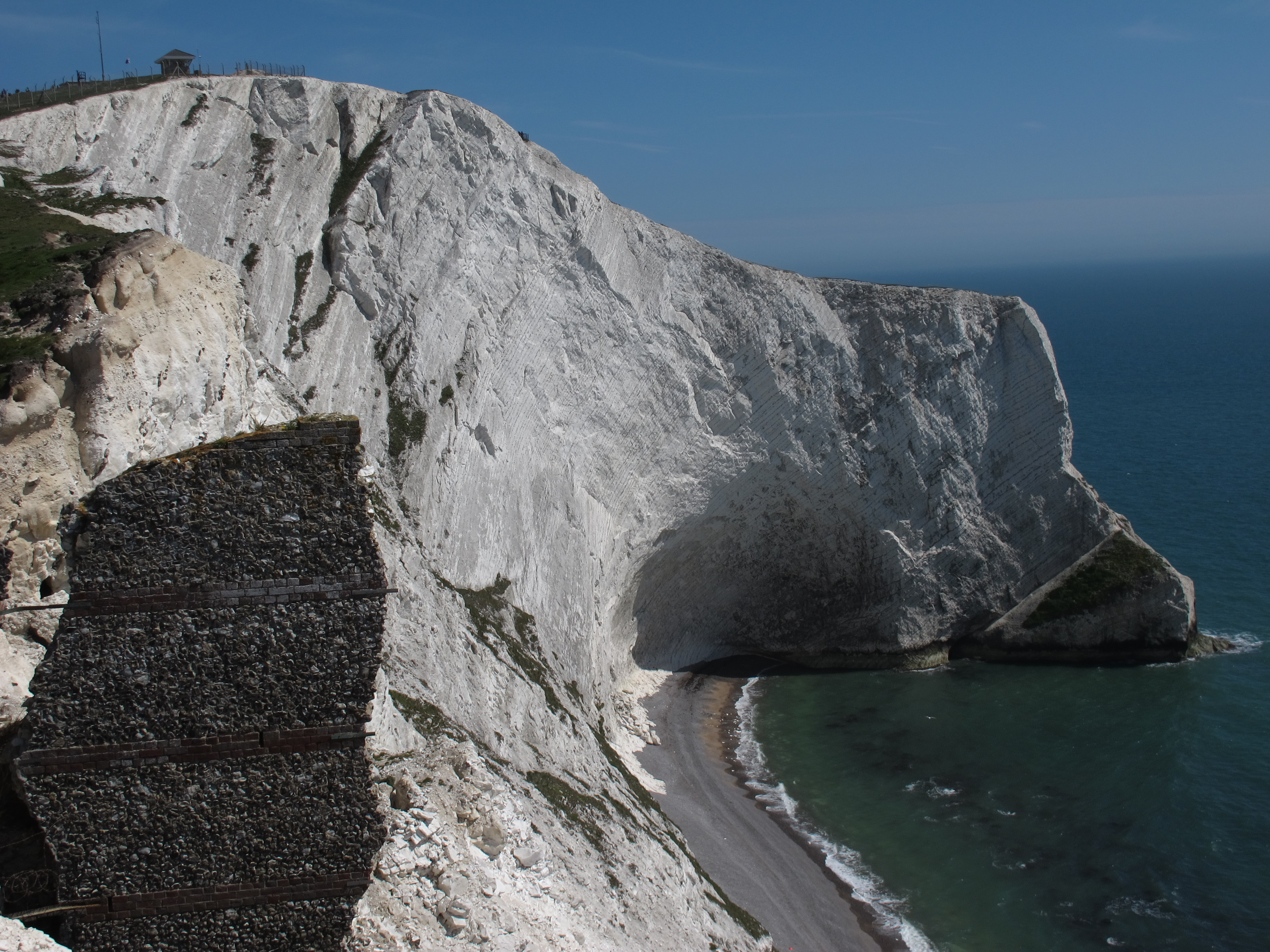 Scratchell's Bay, showing bedding in the chalk, marked out by darker layers of flints, increasing in dip to the north (away from the sea)